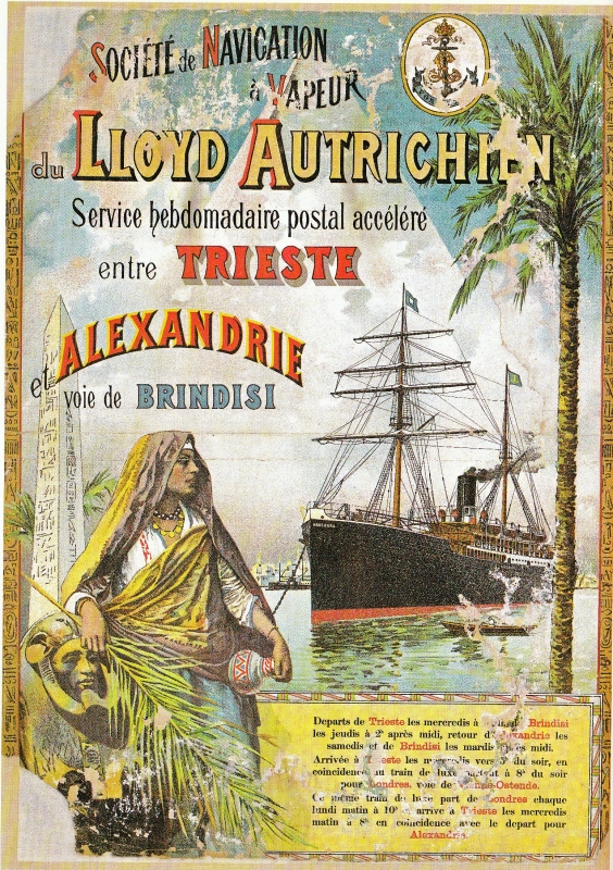 French-language poster advertising the Austrian Lloyd's steamship departures for the Trieste-Alexandria route via Brindisi. Late 19th century